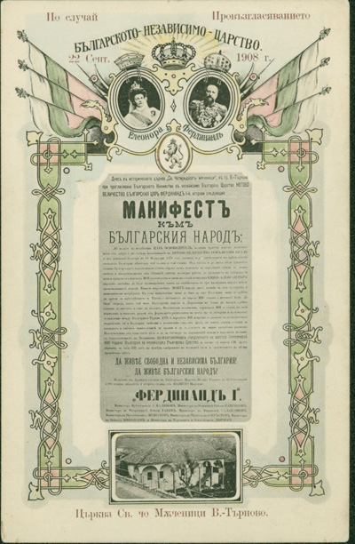 Bulgarian Declaration of Independence